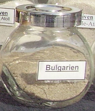 sands from different locations